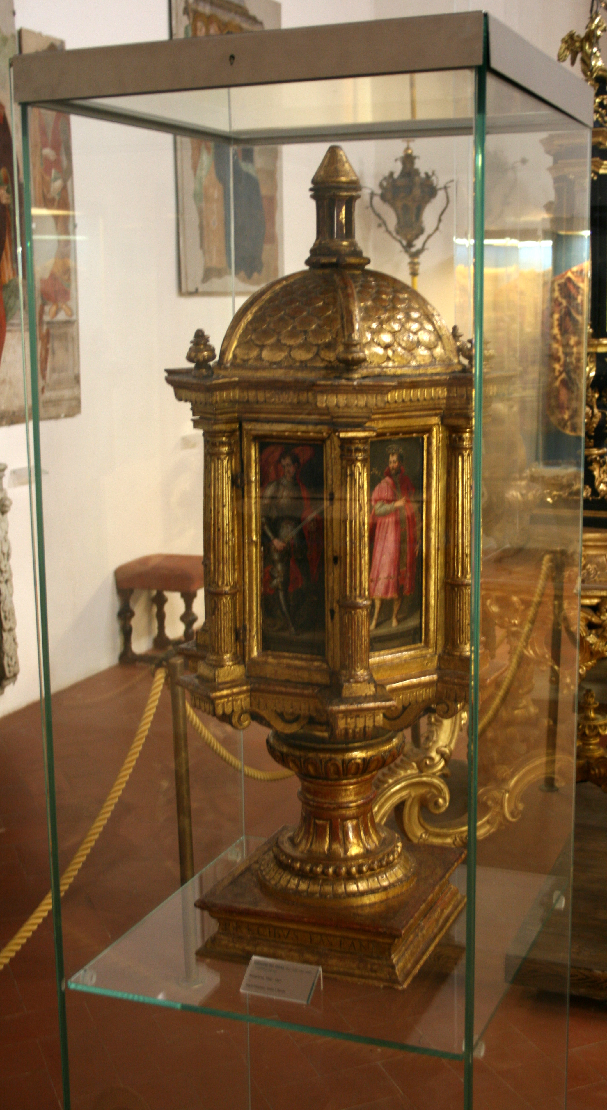 The previous Holy Milk Reliquary, Montevarchi, Museo della Collegiata